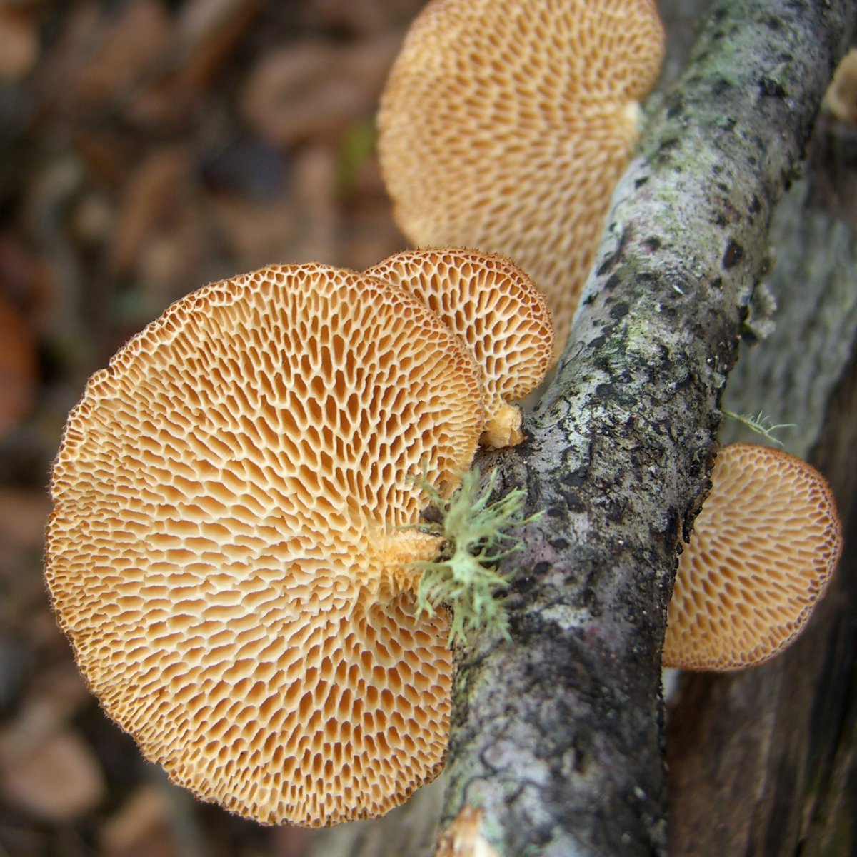 The pore surface of Polyporus alveolaris (DC.) Bondartsev & Singer. Photographed in Cabin Cove, Smoky Mountains, Haywood Co., North Carolina, USA.